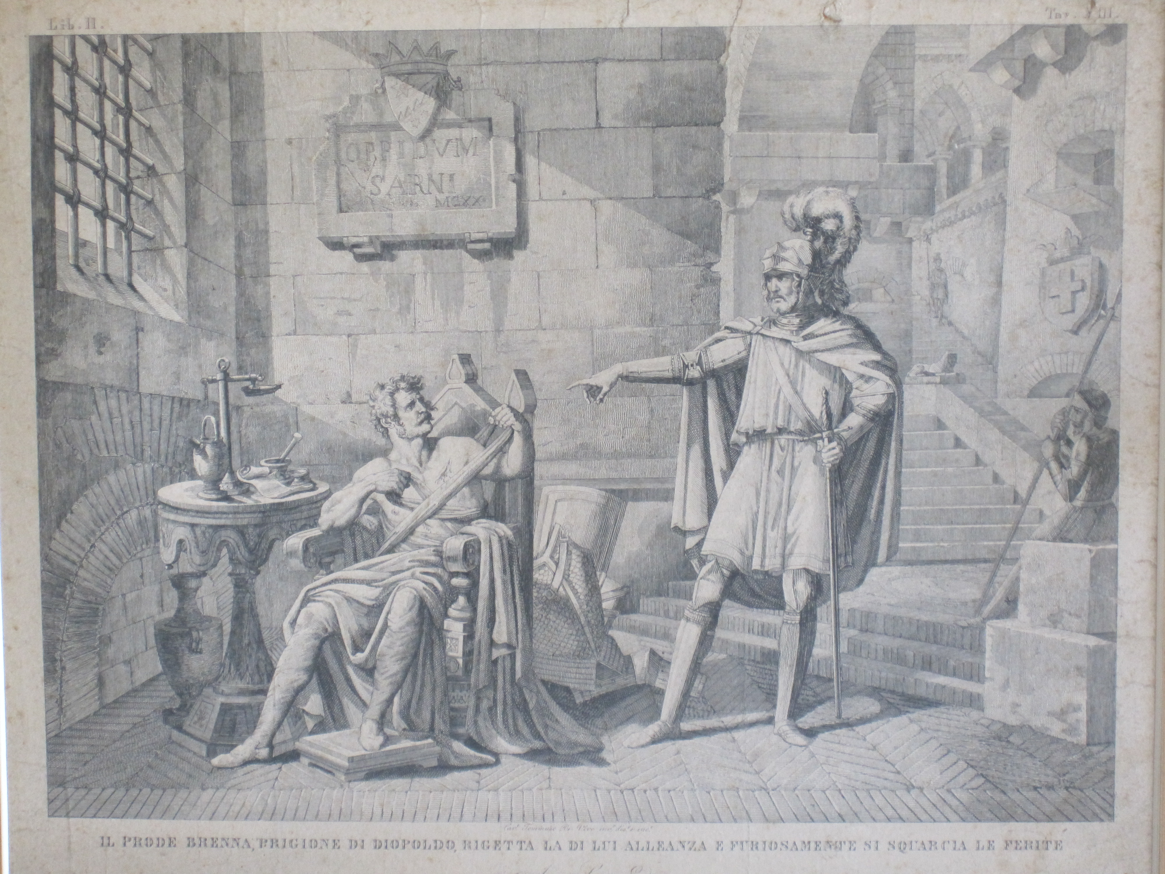 Encounter between Walter de Brienne and Diopoldo of Vohburg